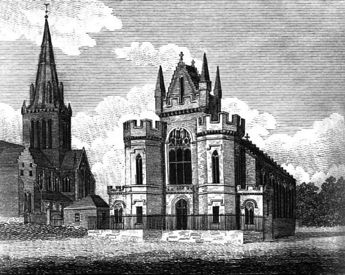 Engraving of Barony Church, Glasgow